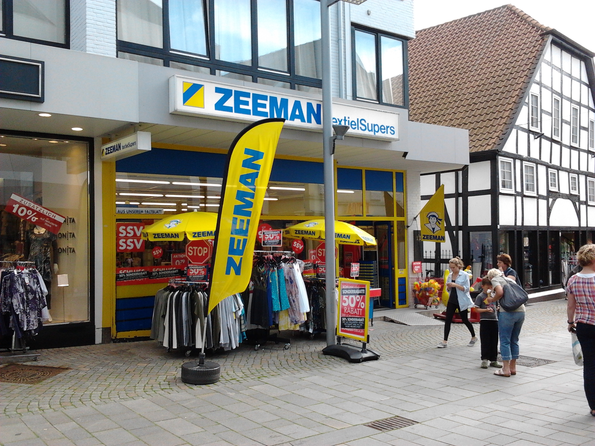 Zeeman shop in Bünde, Germany.